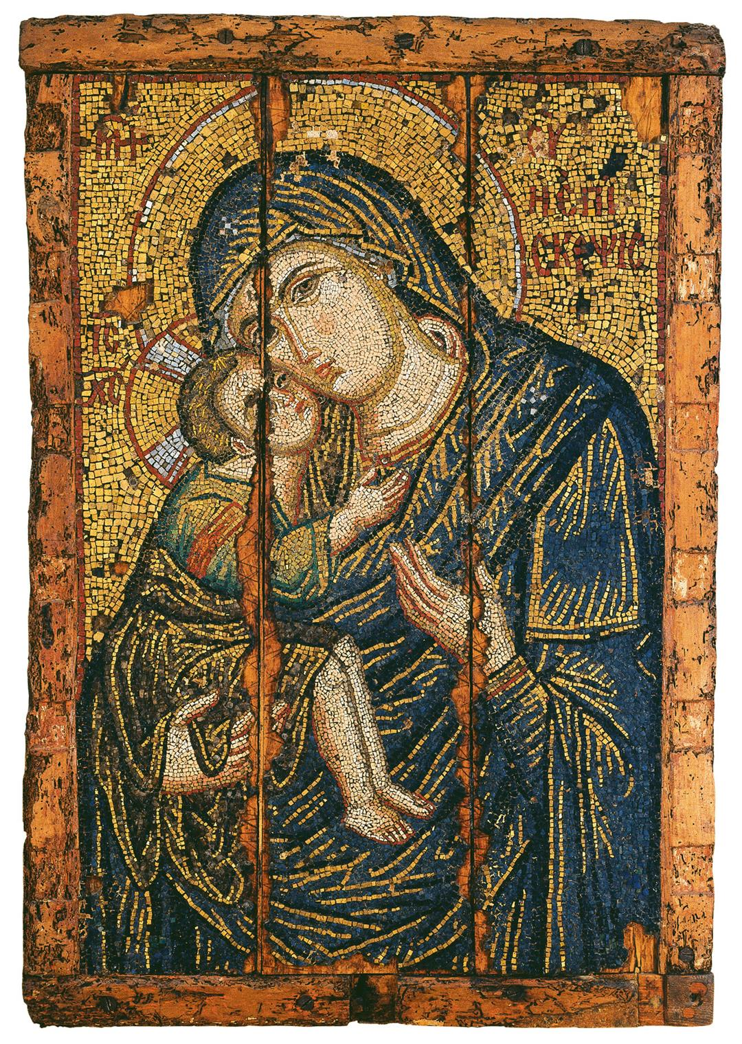 This particular type of the Virgin, in which the two faces are touching, cheek to cheek, is known as the Glykophilousa. This type presents the Virgin in her role as mother and as protector of mankind. The icon is made of mosaic. It is a very expensive technique, rarely used on portable icons. In the middle of the lower frame can be seen a notch into which a pole was fitted, so that it could be processed during litanies, that is, ceremonial processions through the city streets. The rest of the time the icon would have been kept on the iconostasis of a church. It comes from Triglia in Bithynia, near Constantinople, and ended up in the Byzantine and Christian Museum as one of the ""Refugees' Heirlooms"", which came to Greece after the Asia Minor Disaster (1922). Origin: Church of Hagios Basileios,Triglia, Asia Minor. Measurement: 107 x 73,5 cm. Exhibit Number: ΒΧΜ 00990